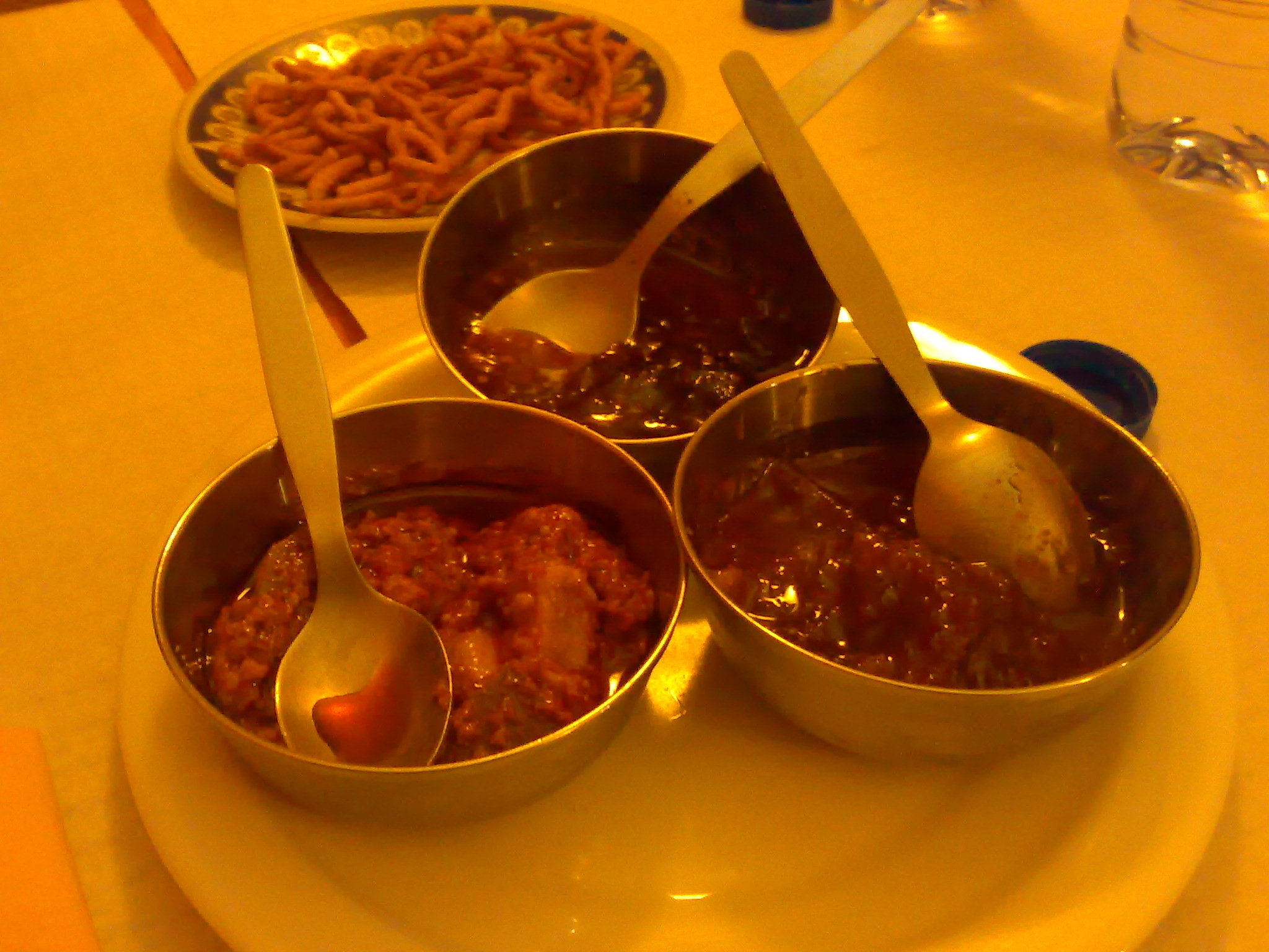 Achar e chetnins (delicacies from Goa, India).